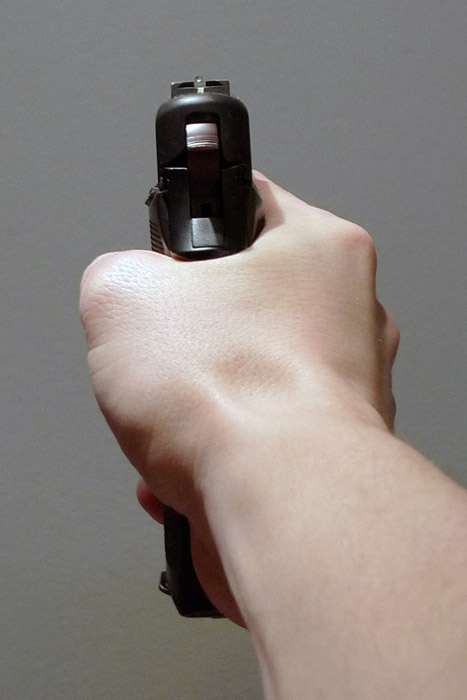 A SIG Sauer P220 handgun held upright, to contrast with an illustration of the side grip made popular by gangster movies.